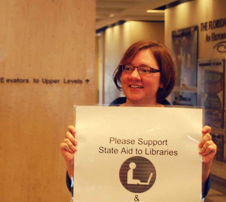 A public librarian advocates for state aid. Text reads: "Please support state aid to libraries". (Photo taken in Nebraska?)